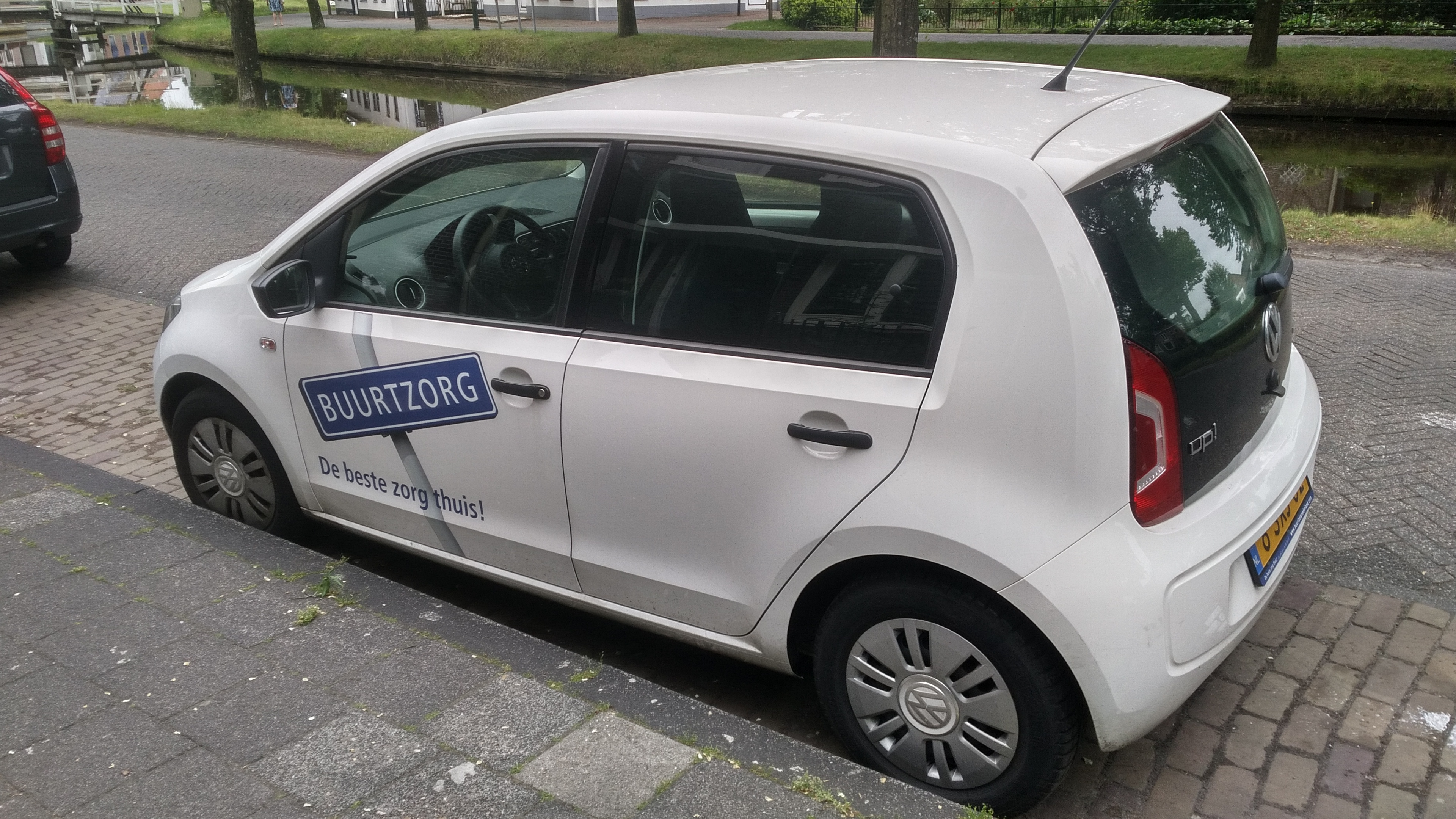 An automobile operated by the Buurtzorg in the Groninger village of Oude Pekela.